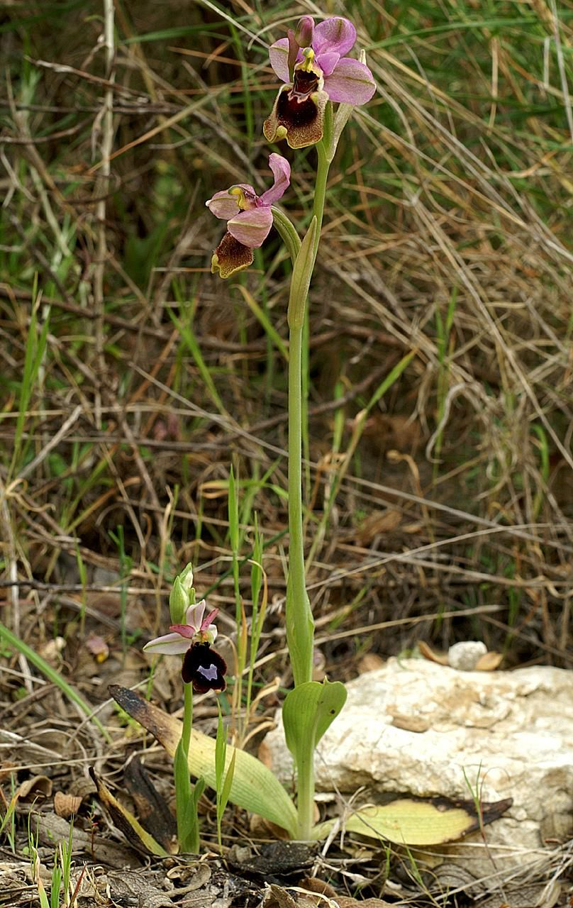 Ophrys balearica